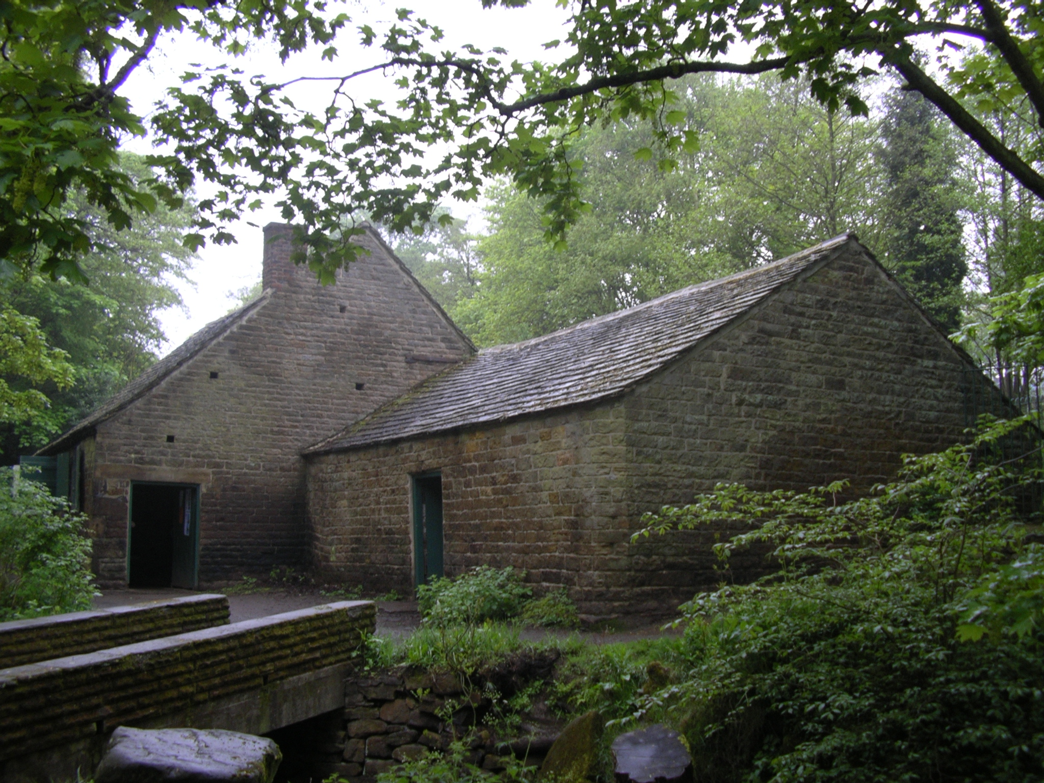 Shepherd Wheel from the south bank of the Porter Brook, looking north west.